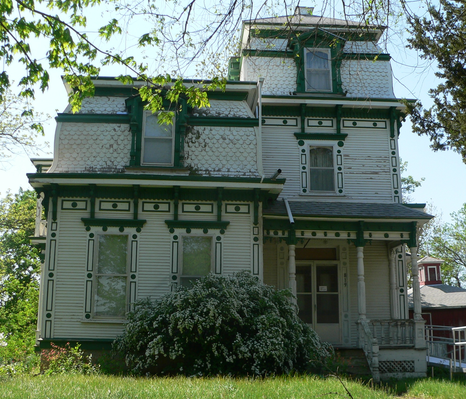 Richard R. Kiddle house, located at 819 8th Street in Friend, Nebraska; seen from the north.